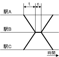 Explanation figure about single track capacity.